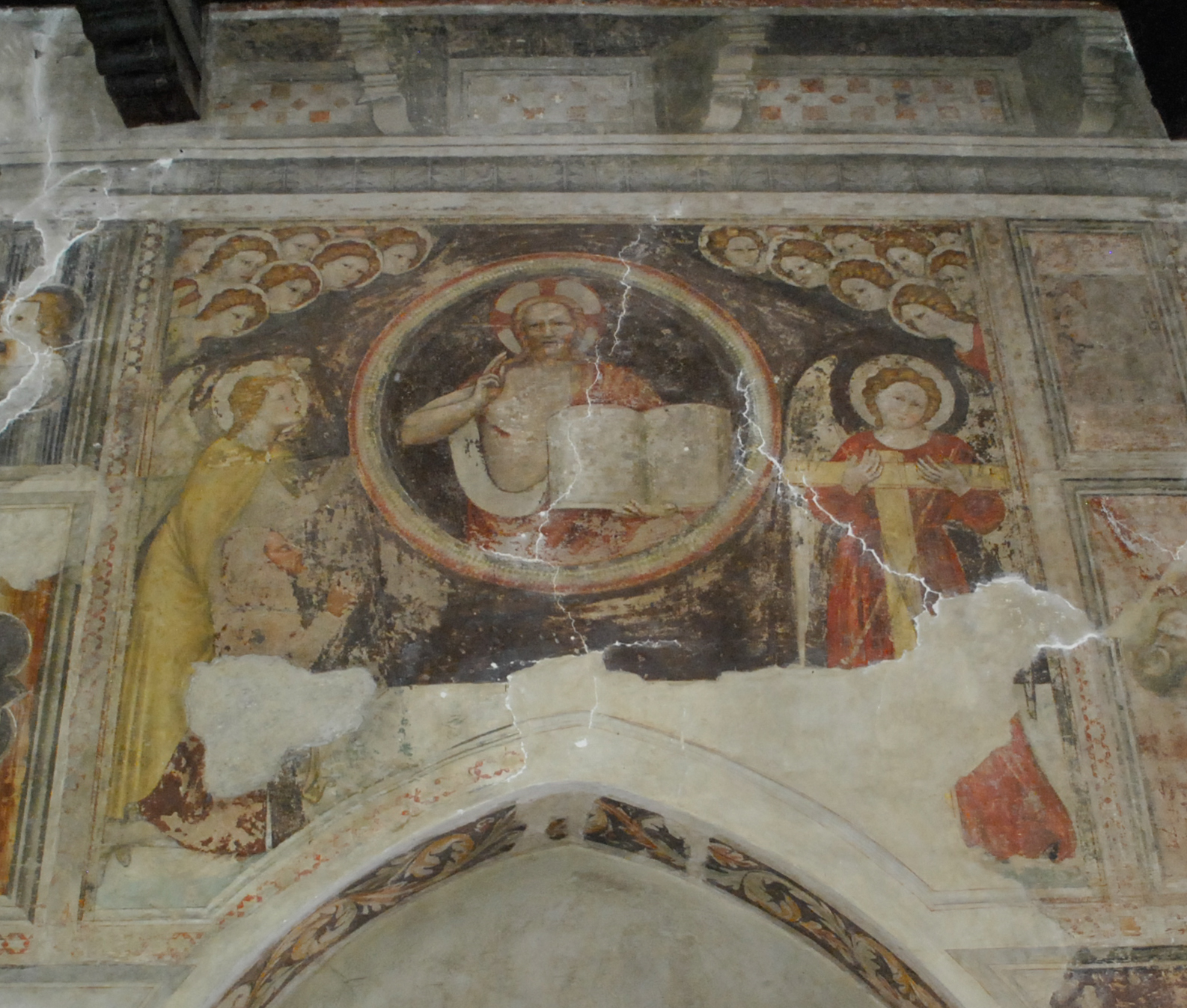 Stefano da Ferrara, Particular Judgment, Casa Minerbi Del Sale, Ferrara